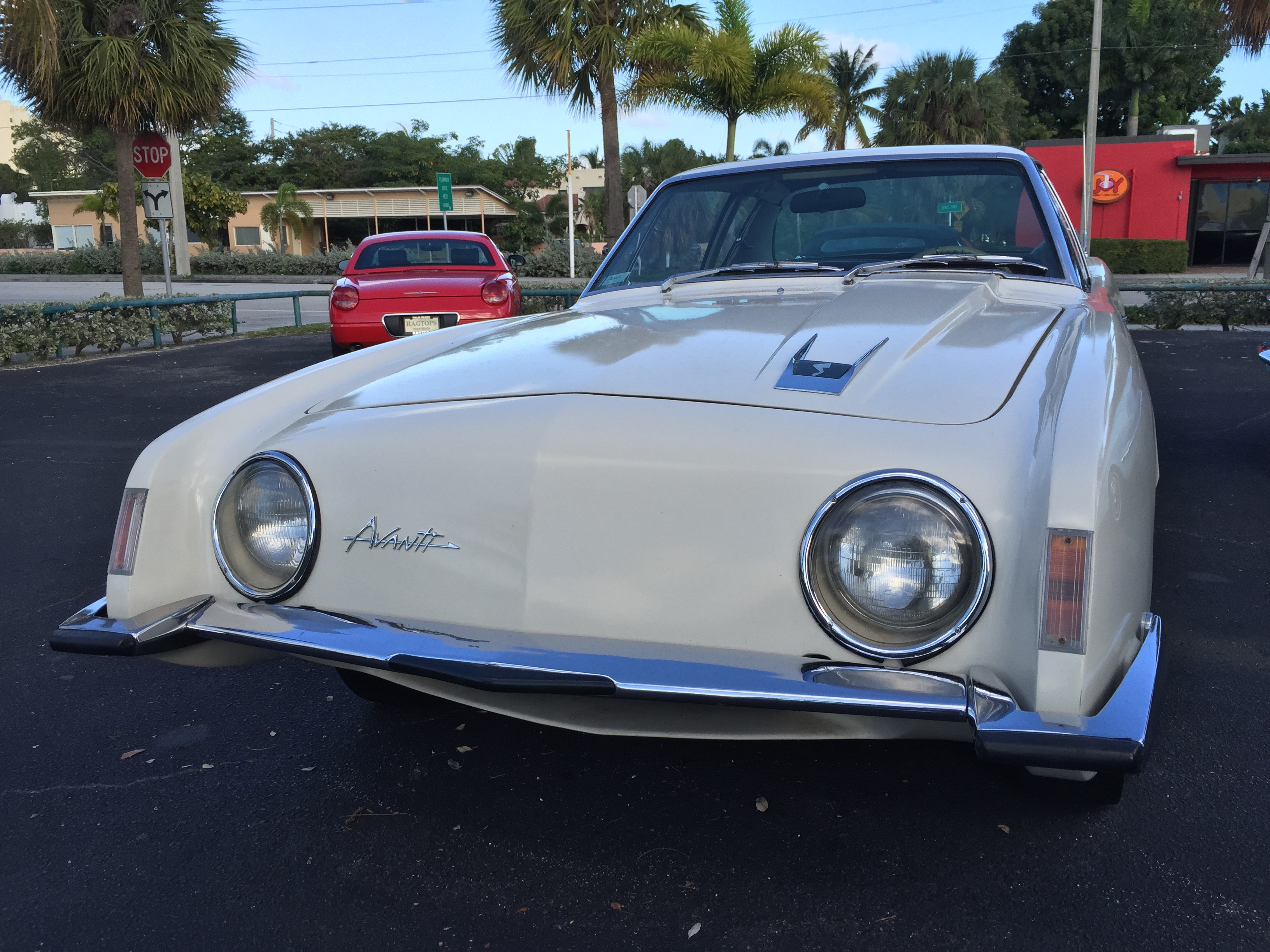 1963 Studebaker Avanti, a four-seat personal-luxury coupe. This car is equipped with the standard "R-1" 289 cu in (4.7 L) 240 hp (179 kW) V8 engine with a 4-speed manual transmission, as well as the optional factory air conditioning. This car's fiberglass body is finished in white with a red bucket seat interior. Photograph taken in West Palm Beach, Florida.